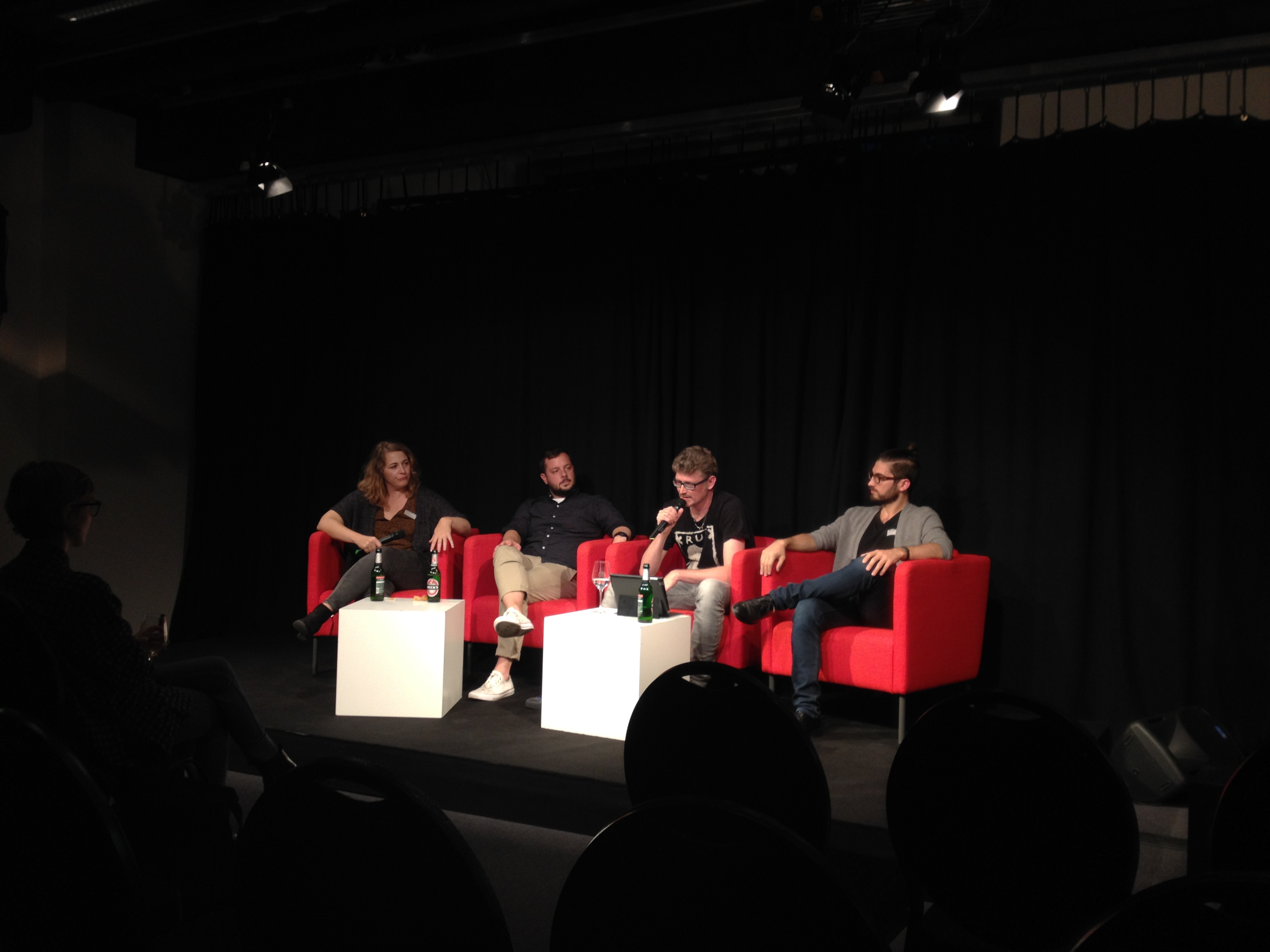 Kelly McEvers (National Public Radio), Ben Brock Johnson (Codebreaker), Steen Lorenzen (radioeins, rbb), and Brendan Baker (Love + Radio) at MIZ Radio Innovation Day 2016 in Potsdam-Babelsberg, Germany